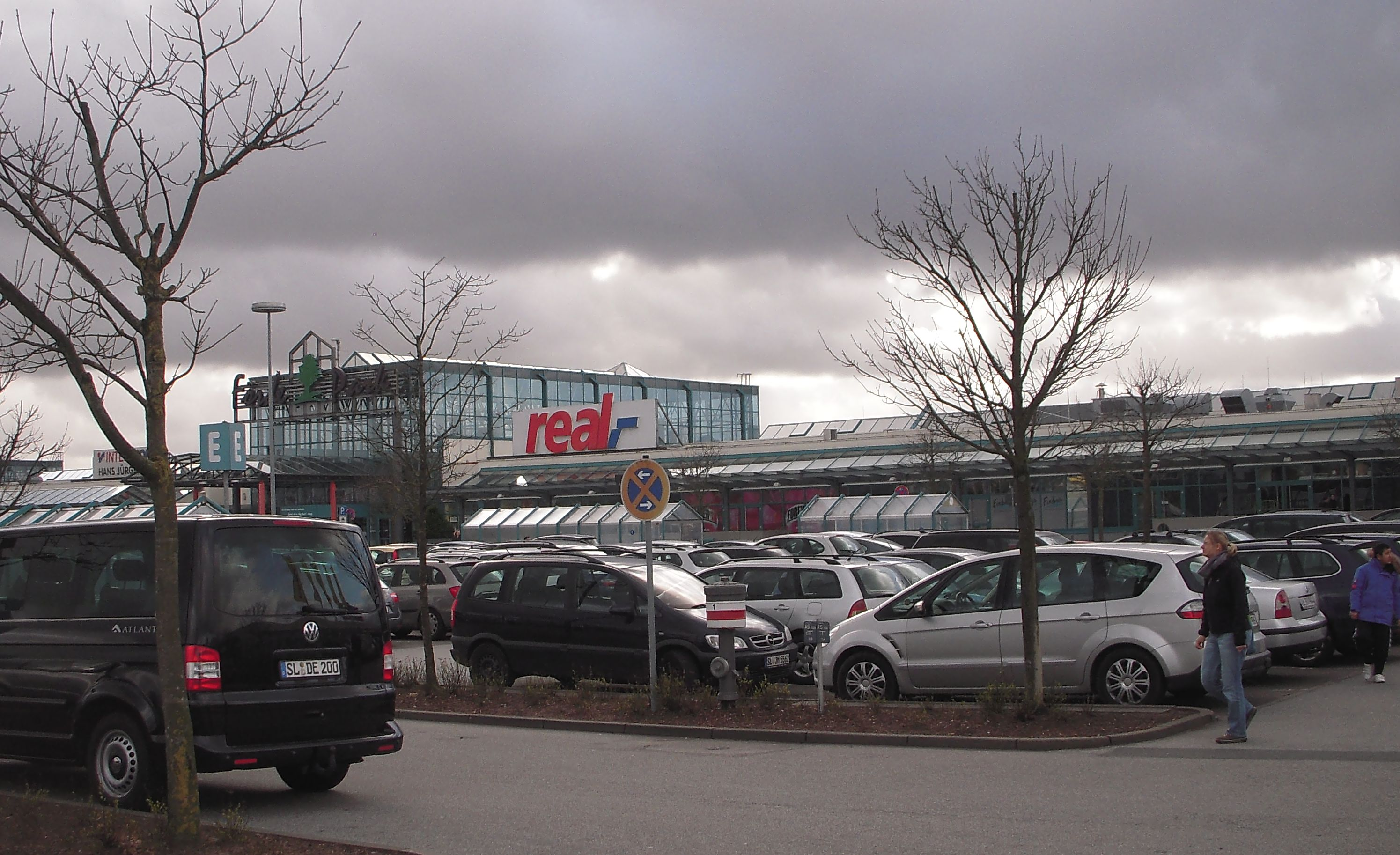 FördePark in Flensburg, Germany, and the Real Supermarket